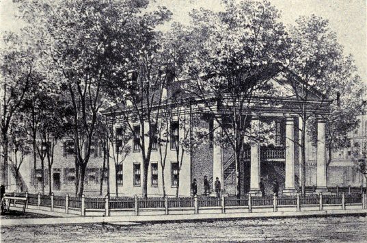 Drawing of the third Fulton County Courthouse published in "The Spoon River Country" by Josephine C. Chandler in 1922.